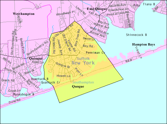 U.S. Census 2000 reference map for Quogue